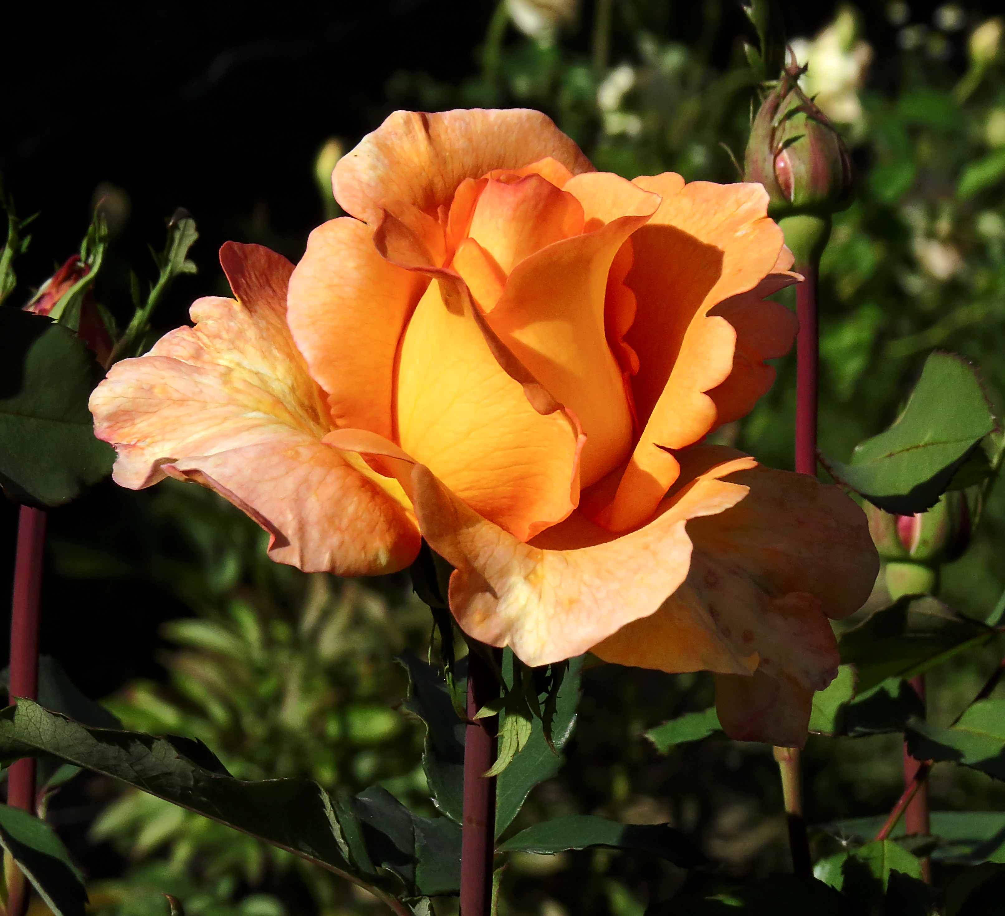 Rose 'Louis de Funès'. Foto made in private garden in Ukraine